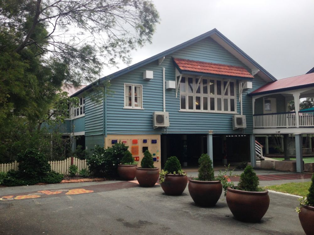 1947 Suburban Timber School Building extension (Block F), Cannon Hill State School